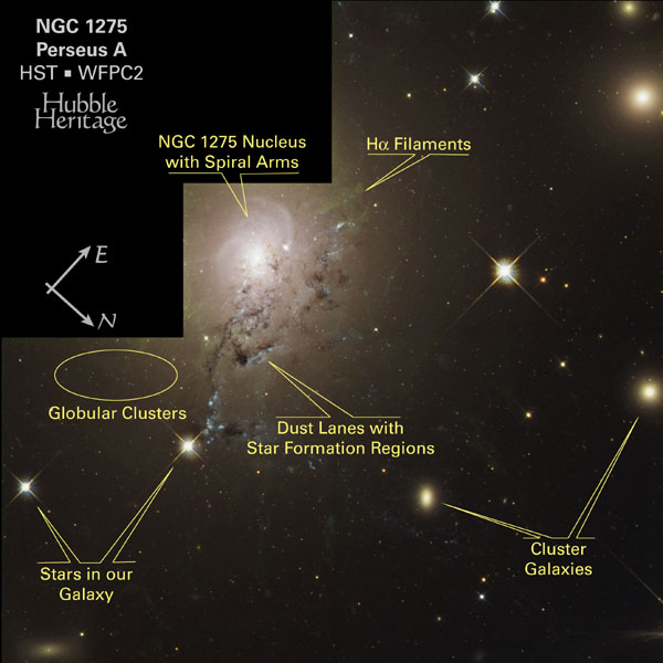 NGC 1275 illustrated